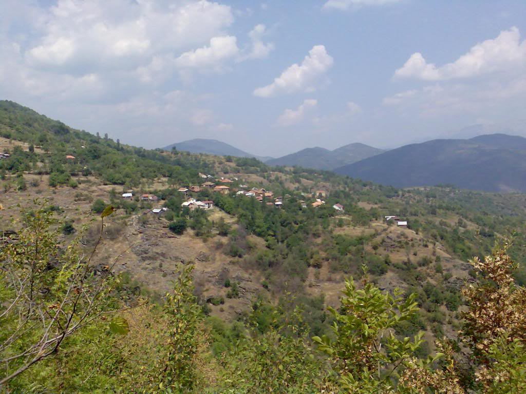 Village of Lupshte, Poreche region, Republic Macedonia